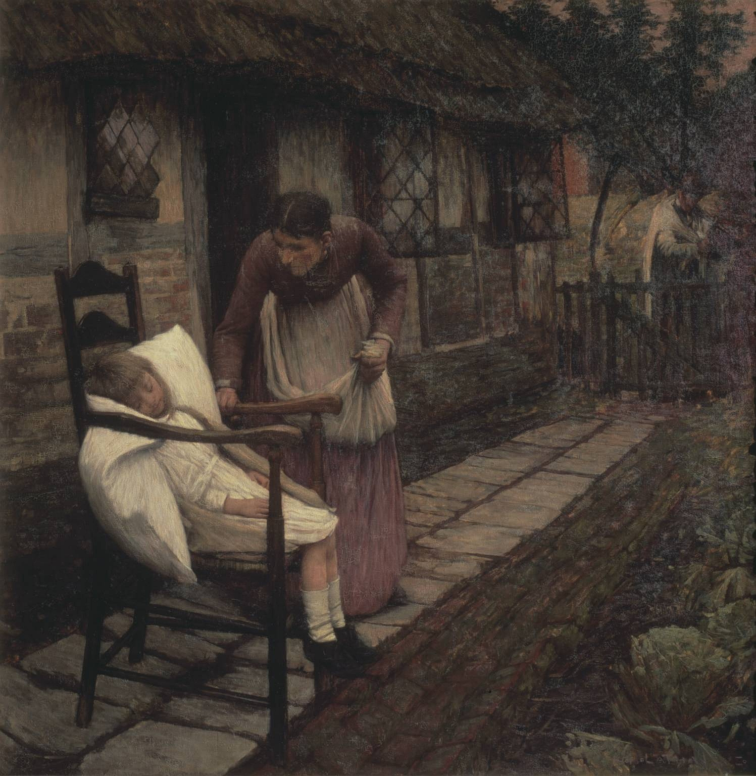 The Man with the Scythe